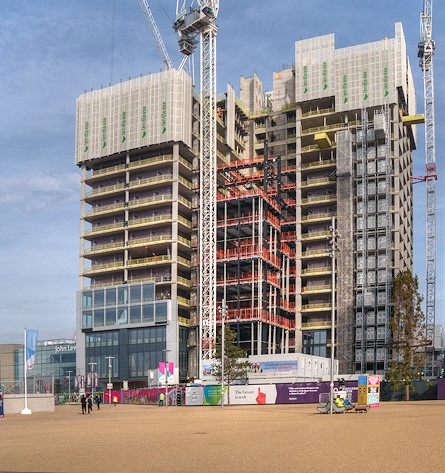 International Quarter under construction in October 2016 at Stratford